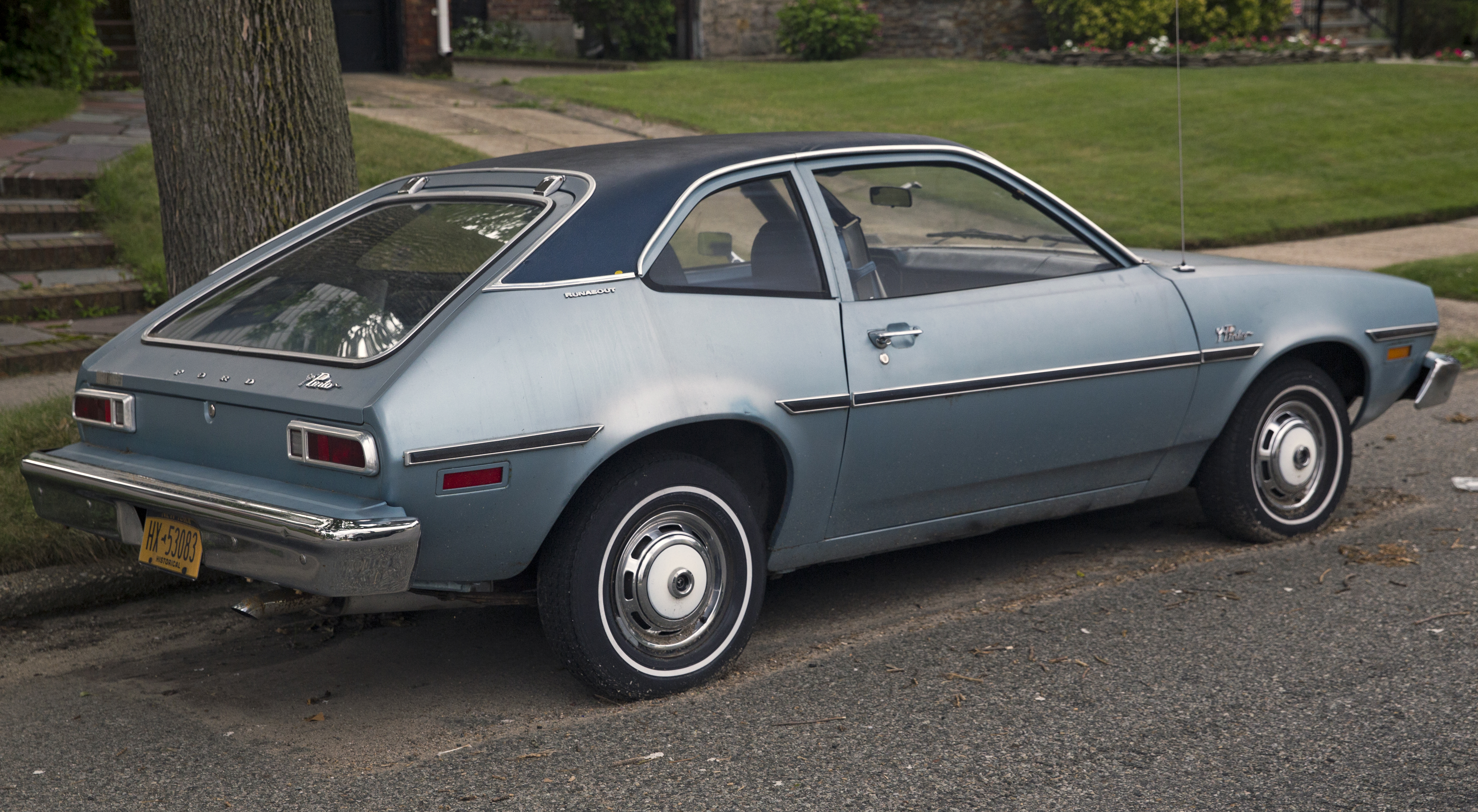 A 1975 Ford Pinto Runabout with the 2.8-liter two-barrel Cologne V6 (new for '75). Assembled in Wixom, MI. A rear-wheel-drive, V6 hatchback should really be my dream car, but... they had 97hp and were only available in conjunction with the three-speed Cruise-O-Matic. Love the blue-on-blue-on-blue.